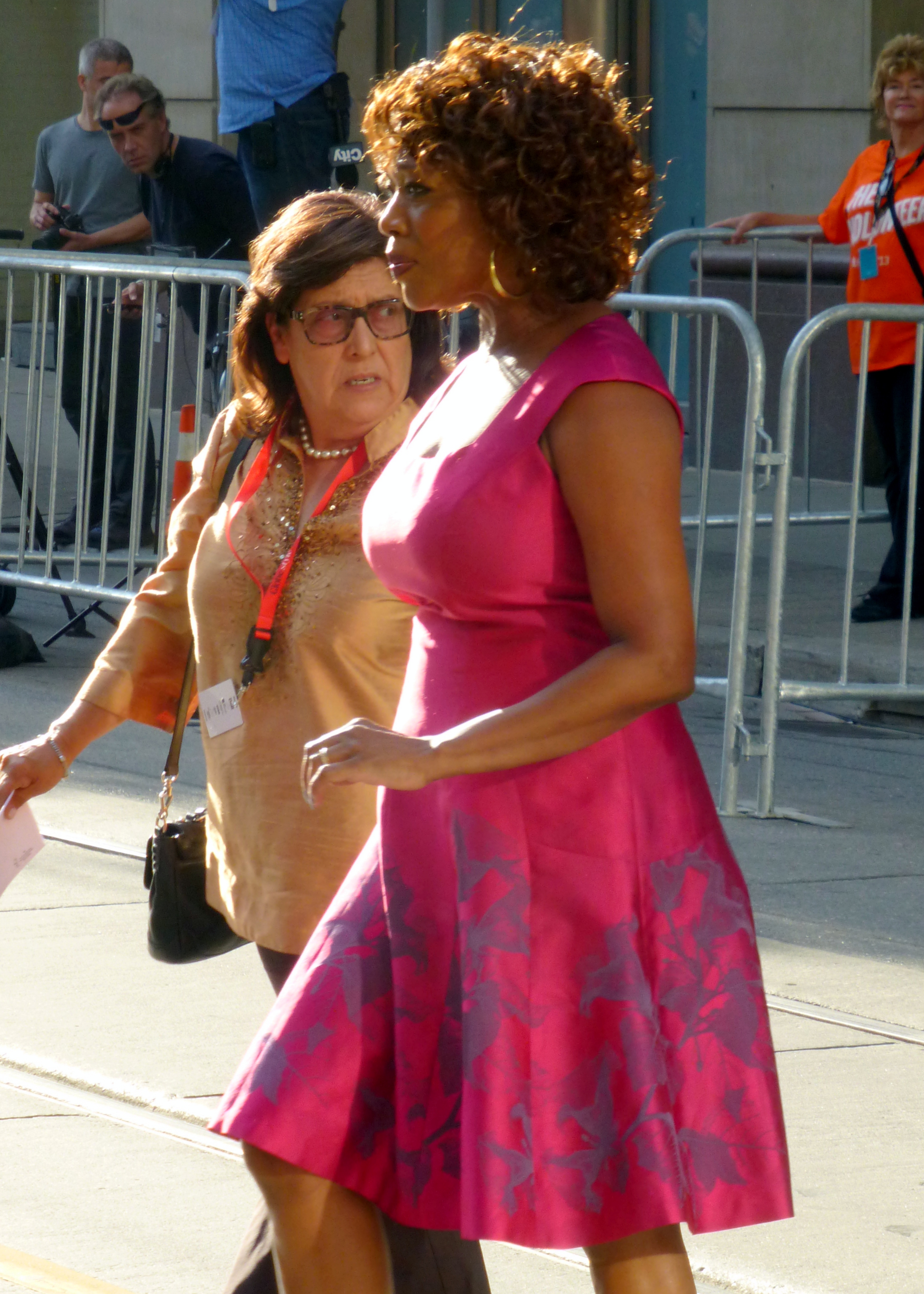 Alfre Woodard at the premiere of 12 Years a Slave, 2013 Toronto Film Festival